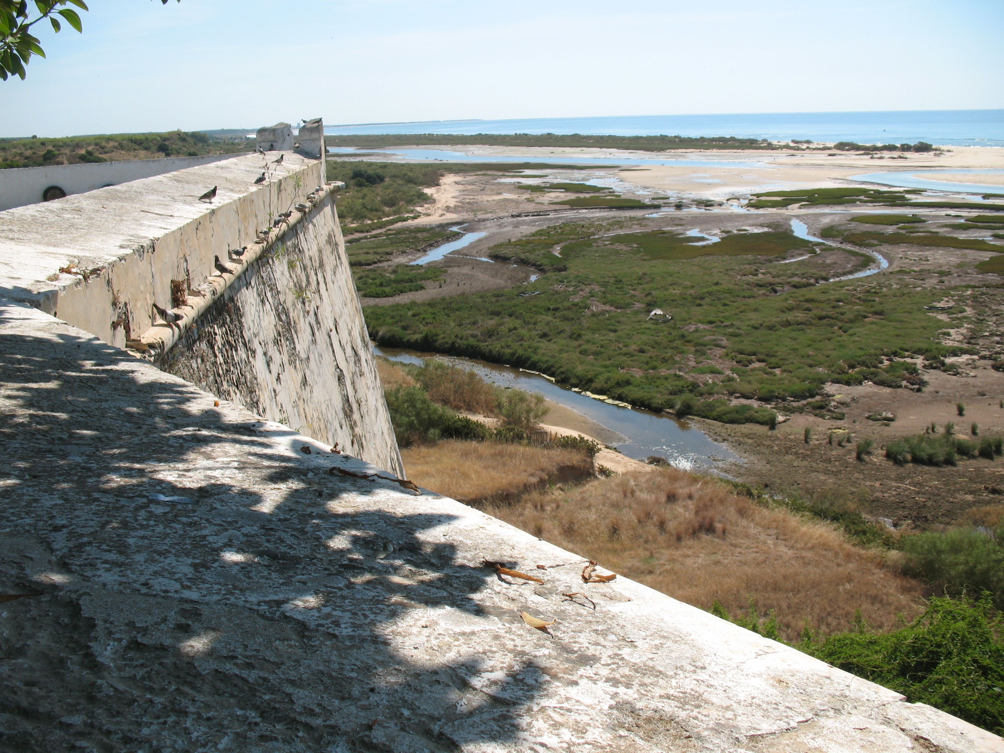 The fortress of Cacela, Portugal, view on laguna Ria Formosa